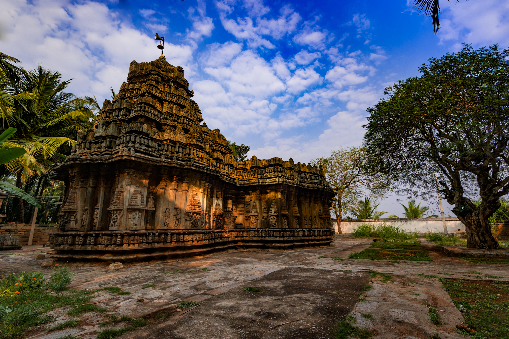 The Sri Brahmeshvara temple is a fine specimen of 12th century Hoysala architecture and is located in the town of Kikkeri of Mandya district in Karnataka state, India. It is only 10 km from the historically important town of Shravanabelagola (in Hassan district). The temple was built in 1171 AD by a wealthy lady called Bommare Nayakiti during the rule of Hoysala King Narasimha I.[1] This temple is a protected monument under the Karnataka state division of the Archaeological Survey of India.